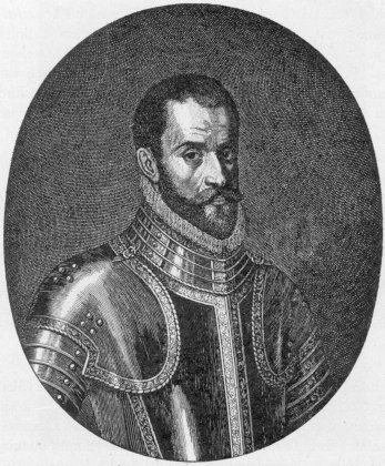 Pontus De la Gardie, a Swedish military commander